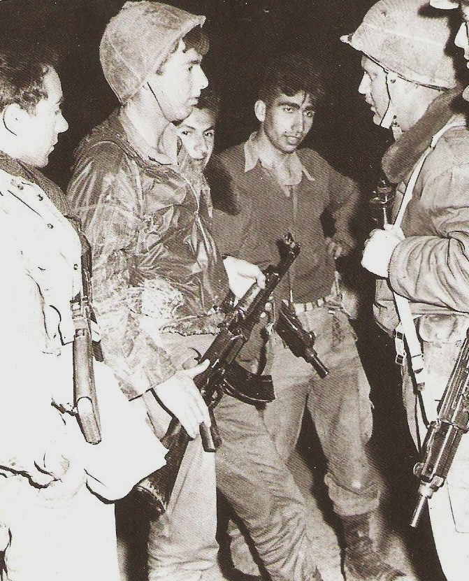 Israeli special forces coordinating an operation during the border conflicts. Notice use of personal weapons of different types and caliber.